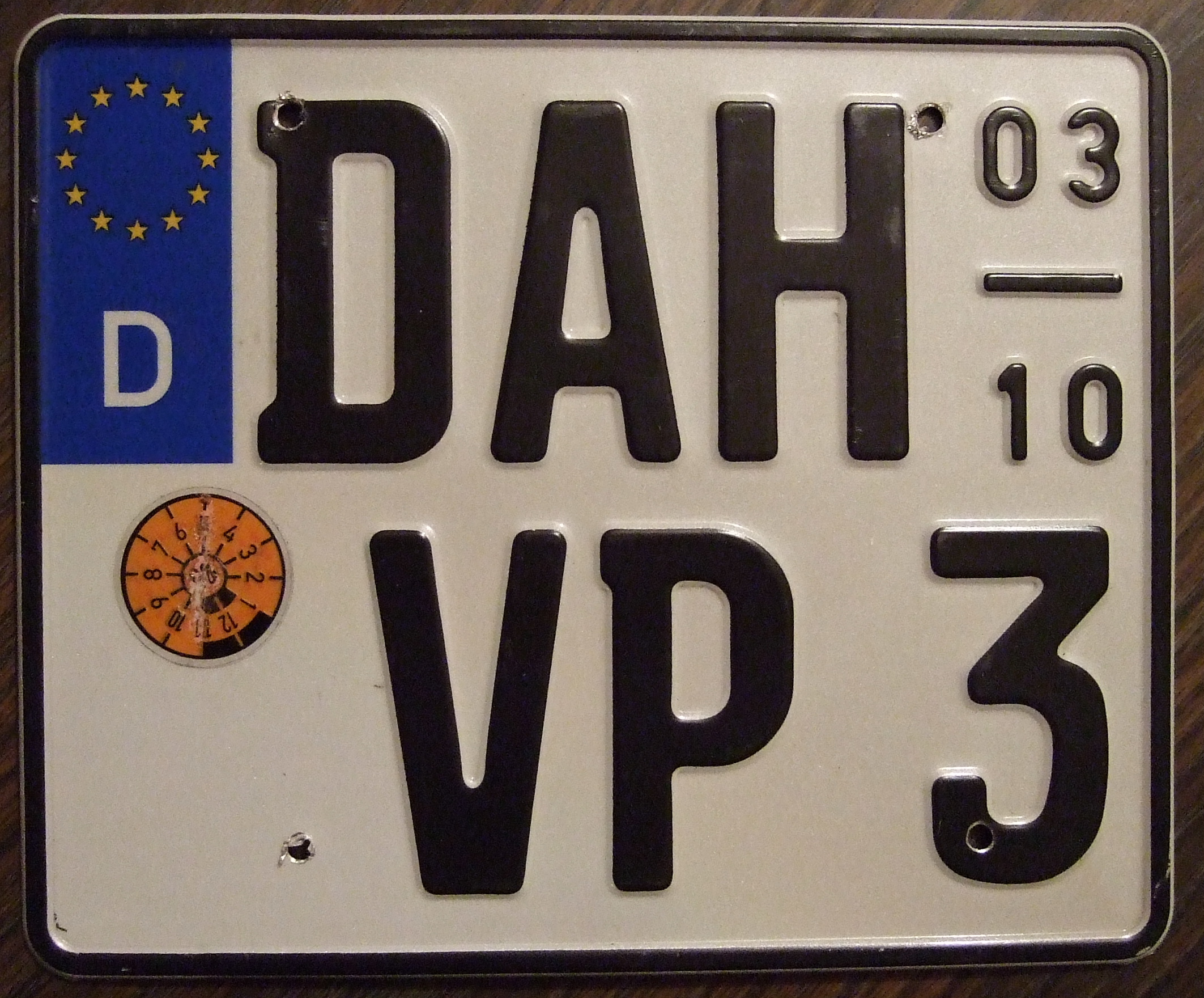 A German seasonal motorcycle plate from Dachau, a city north of Munich. One of Germany's rarest city codes as a lot of people having a vehicle registered in Dachau use a Munich letter code. A lot of people who live in Dachau don't want people to know that so the resident's often use Munich coded plates. The town's main tourist attraction is the Dachau Concentration Camp and Memorial located there.